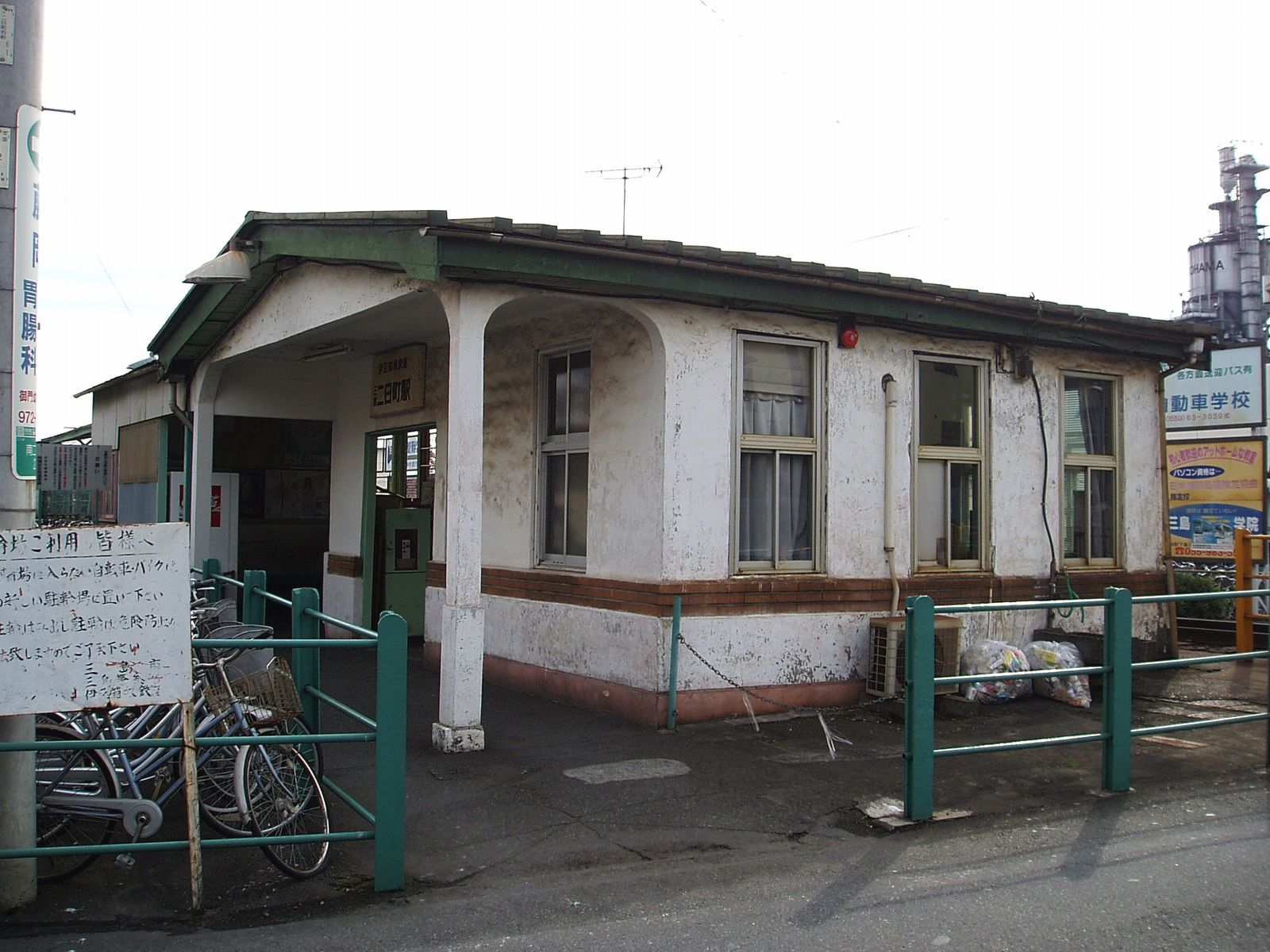 Isuhakone Railway Company, Mishima-Futsukamachi Sta. 2007.11.26 Photo by Cassiopeia_sweet.